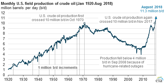 U.S. crude oil production reached 11.3 million barrels per day (b/d) in August 2018, up from 10.9 million b/d in July. November 1, 2018